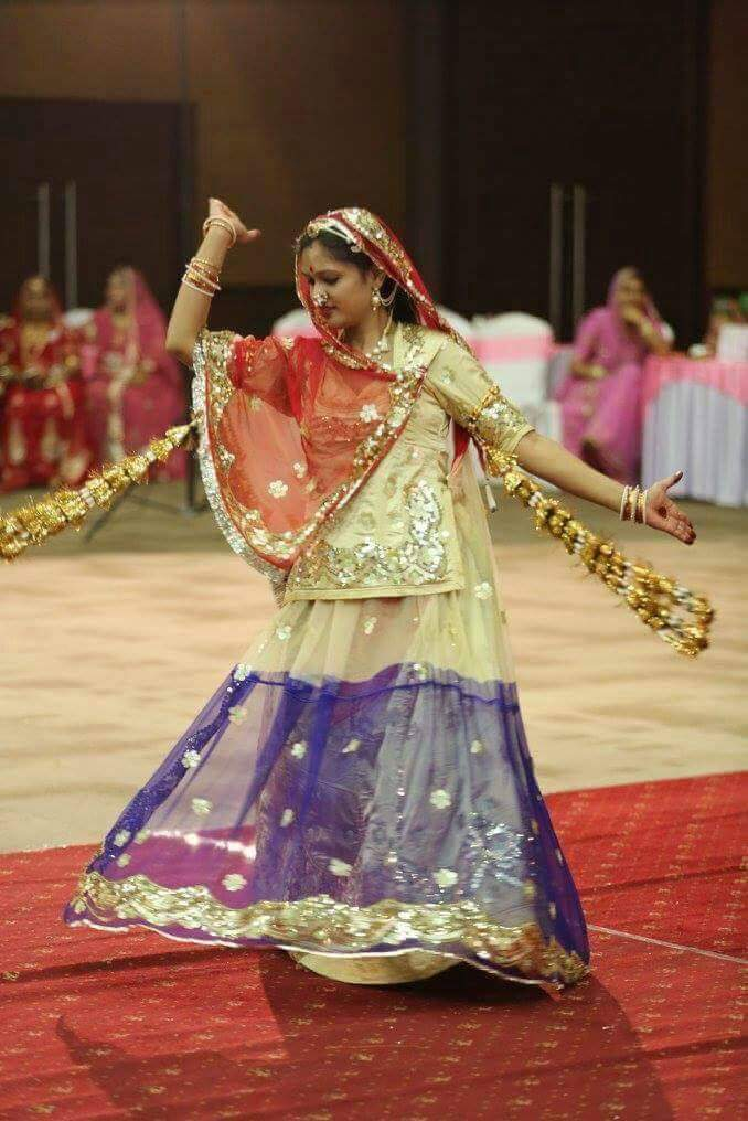 The image is of a Rajput woman performing Ghoomar dance at an cultural event.